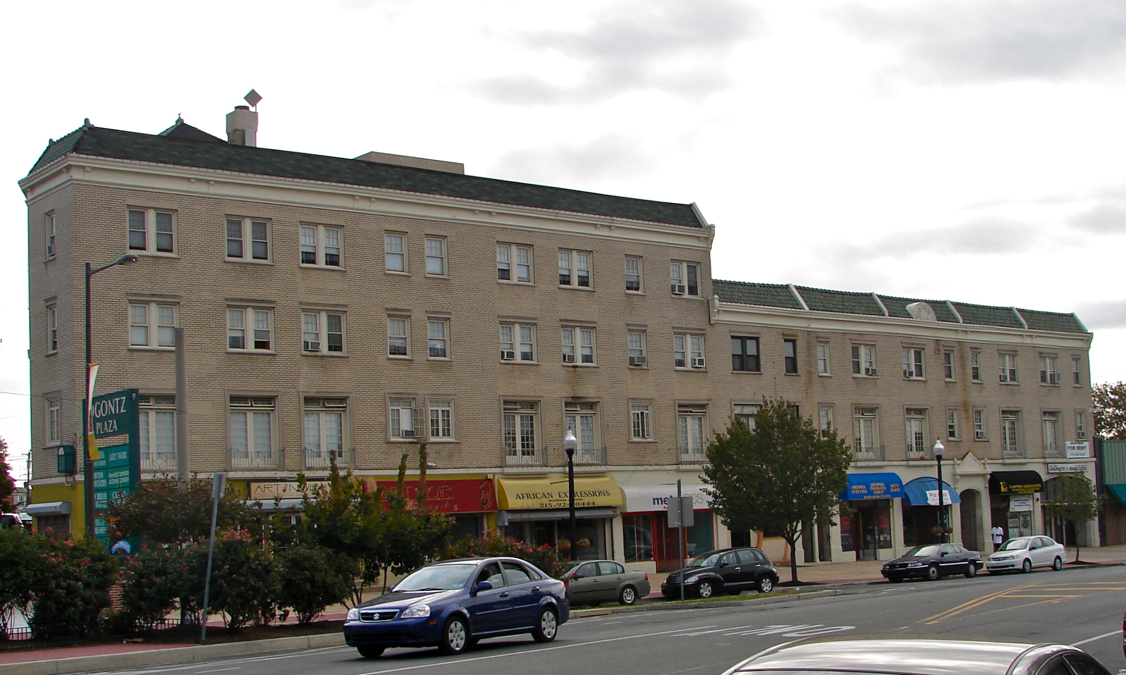 Ogontz Hall on the NRHP since November 14, 1991. At 7175–7165 Ogontz Ave. in the Philadelphia neighborhood of West Oak Lane - far north Philly.